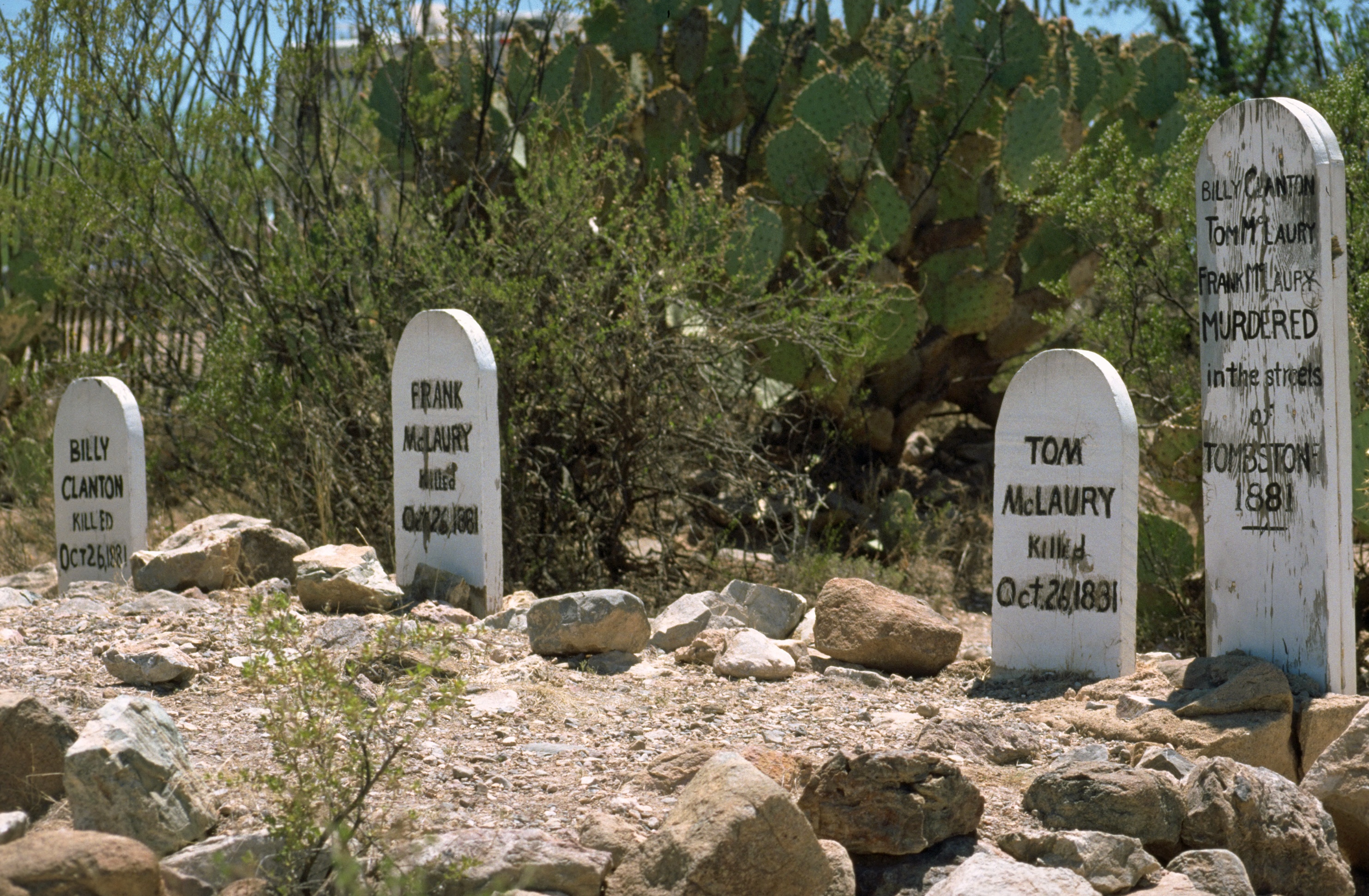 Graves of the victims of the gunfight at the O.K. Corral